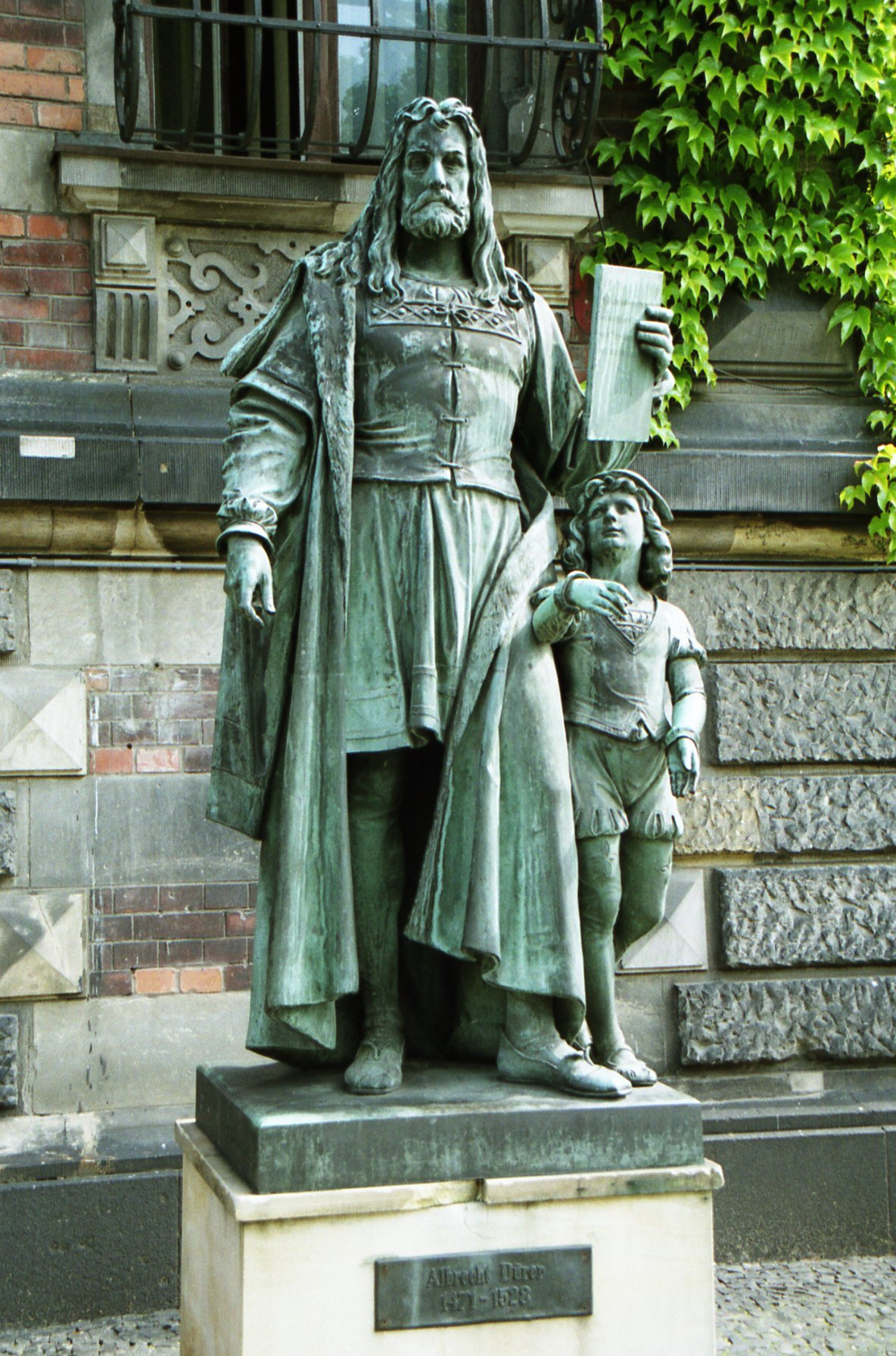 Statue of Dürer in Wroclaw